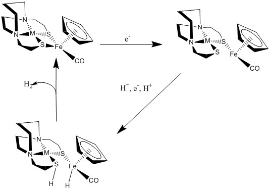 Example of Iron Dithiolates Ligand Formation